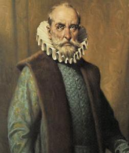 Portrait of 16th century Spanish jurist Lluís de Peguera.